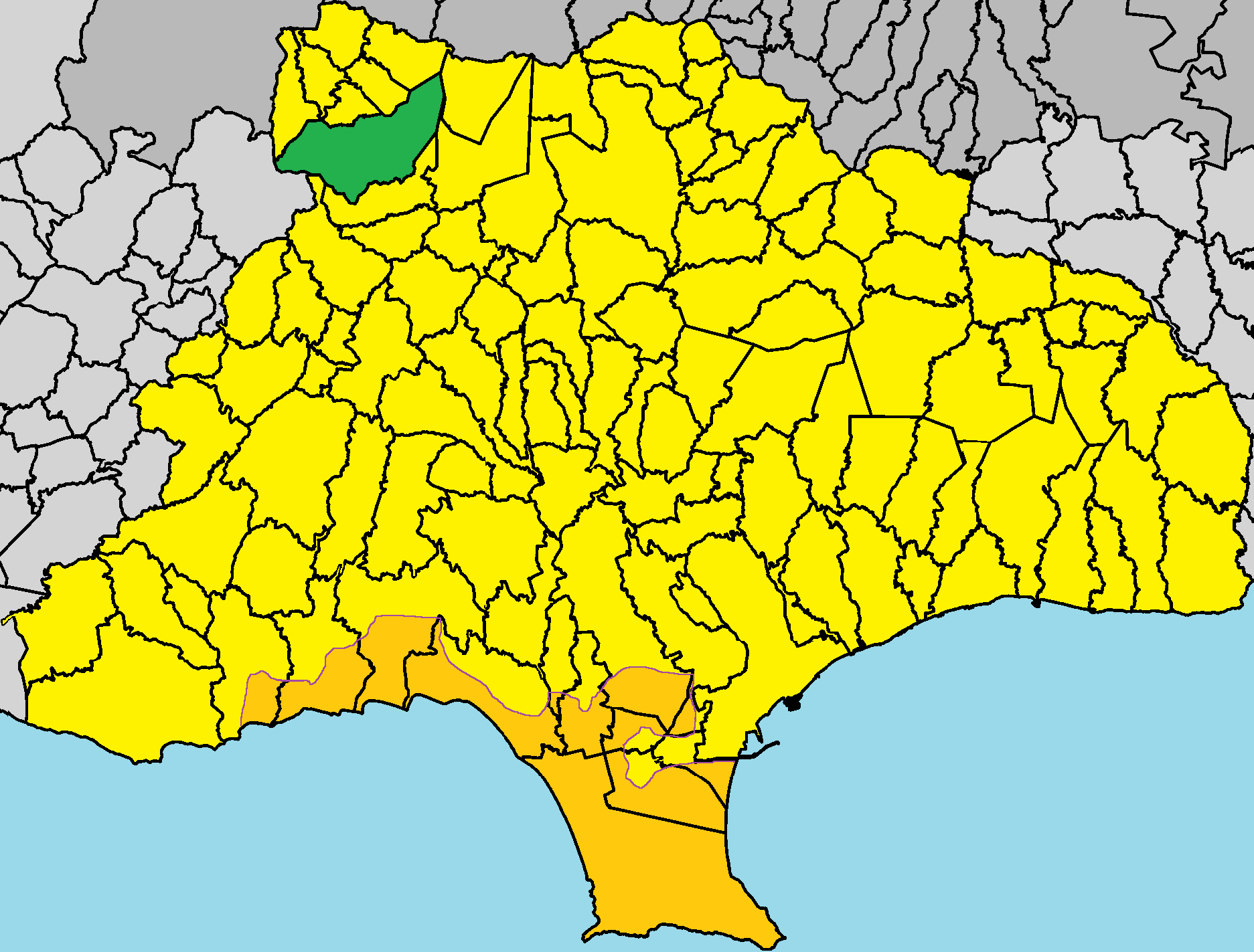 Foini in Limassol District.